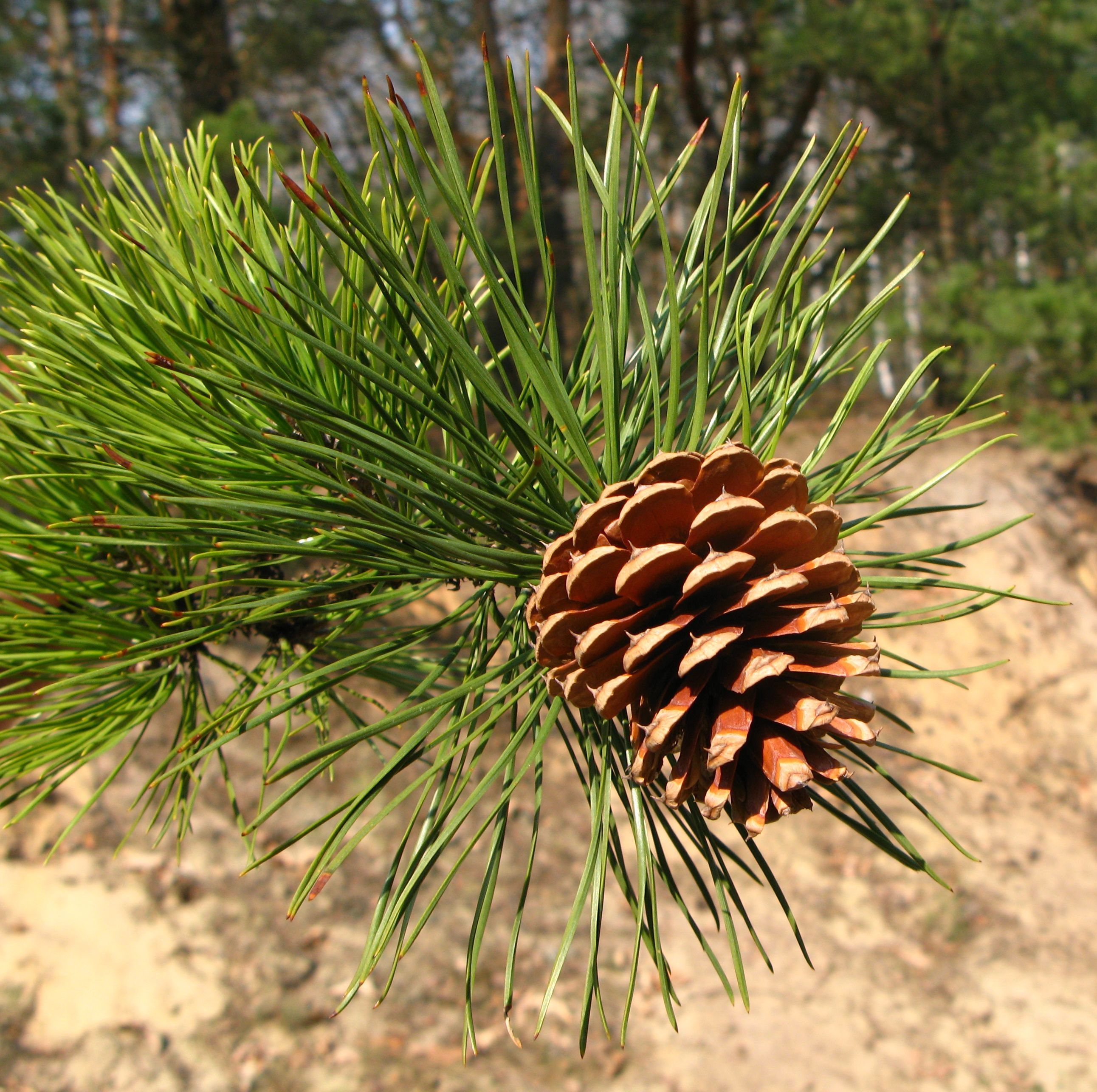 Cultivated Pitch Pine (Pinus rigida) Cone and foliage, Drewnica Forests, Poland